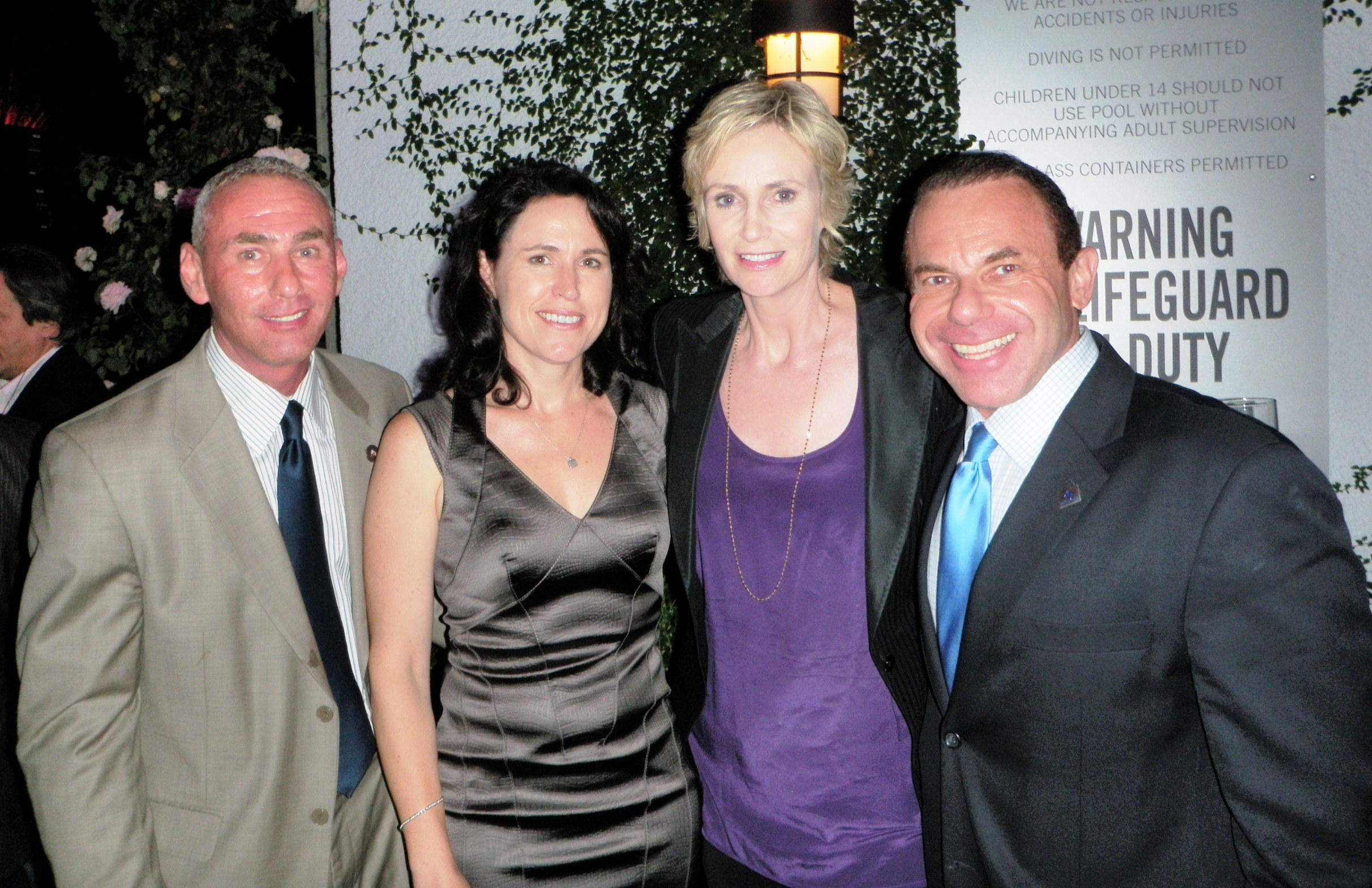 Glee Star Jane Lynch and wife, Dr. Lara Embry with Gay Rights Activists married couple Don Norte and Kevin Norte at P-FLAG 2010's Charitable Event at the London Hotel in West Hollywood, California. Shows Glee's continued commitment to the Gay community.